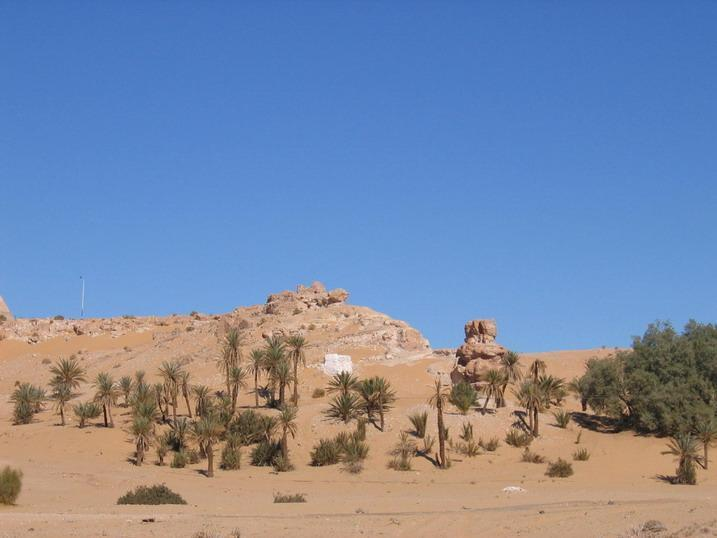 Ksar of Ksiba in Béni Abbès, Algeria.